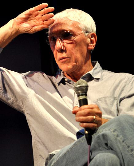 Leon Gast attending the Q&A at the special screening of Smash His Camera benefiting the Woodstock Film Festival on June 5, 2010 at the Bearsville Theater in Woodstock, NY. Photo © Nick Stepowyj Camera: Nikon D5000 License on Flickr (2011-02-09): CC-BY-2.0 Flickr tags: Smash His Camera, Leon Gast, Woodstock Film Festival, Bearsville Theater